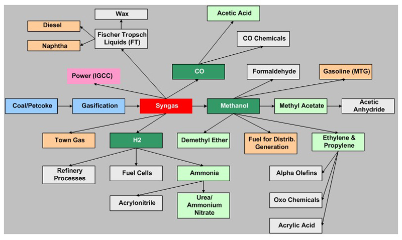 A flow chart or diagram showing typical routes from coal to various products directly or indirectly synthesized from coal